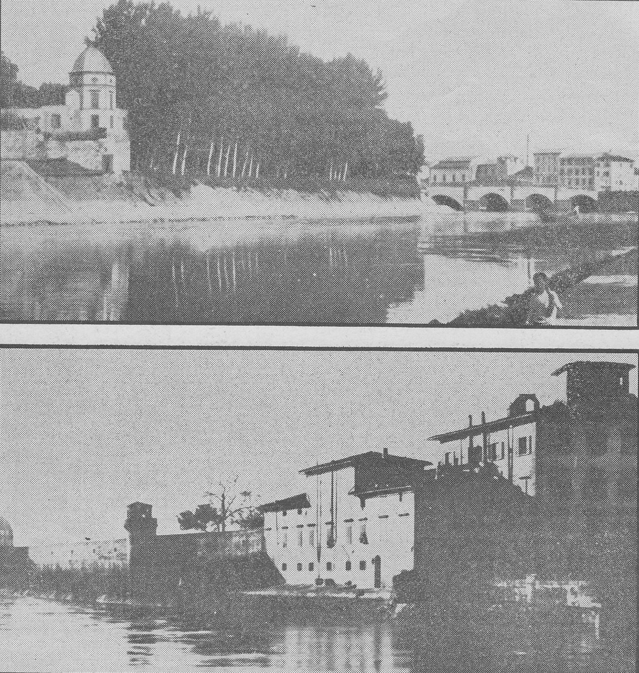 Two old images of the New Citadel in Pisa, Tuscany, Italy.